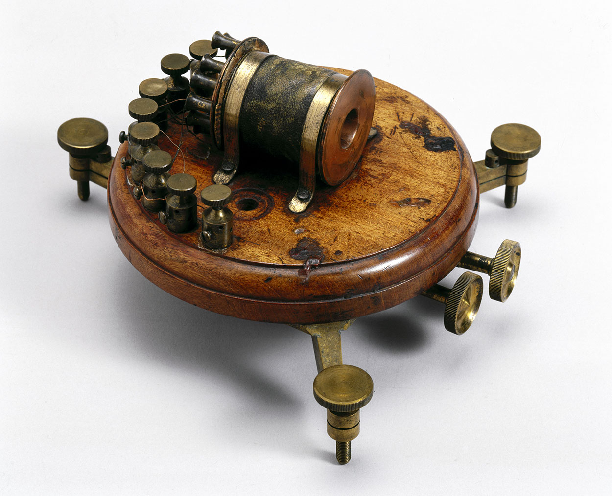 Sir William Thomson, Lord Kelvin, (1824-1907) was Professor of Natural Philosophy at Glasgow University, and was well known for his work in many branches of physics, including electricity. The first transatlantic telegraph cable was layed in 1858, reducing the time it took for messages to cross from days or months to hours. The success of the system relied on an instrument that could detect the tiny electrical signals that had passed so far under the sea. Thomson's galvanometer was the only instrument sensitive enough to detect reliably the first transatlantic telegraph messages. Made by J White.